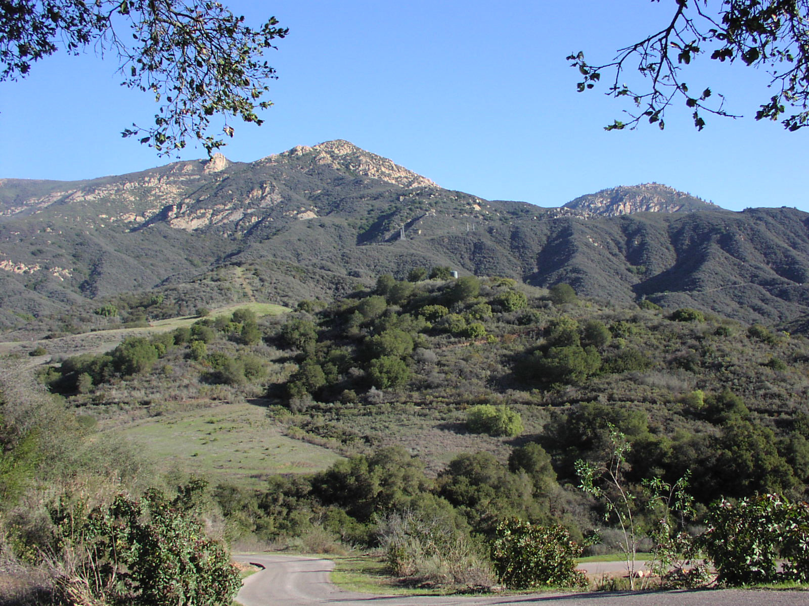 Upper San Roque Canyon in the Santa Ynez Mountains - Santa Barbara County, California. Not far from the site of the "Battle of Arroyo Burro". GFDL, photo by self, January 13, 2008